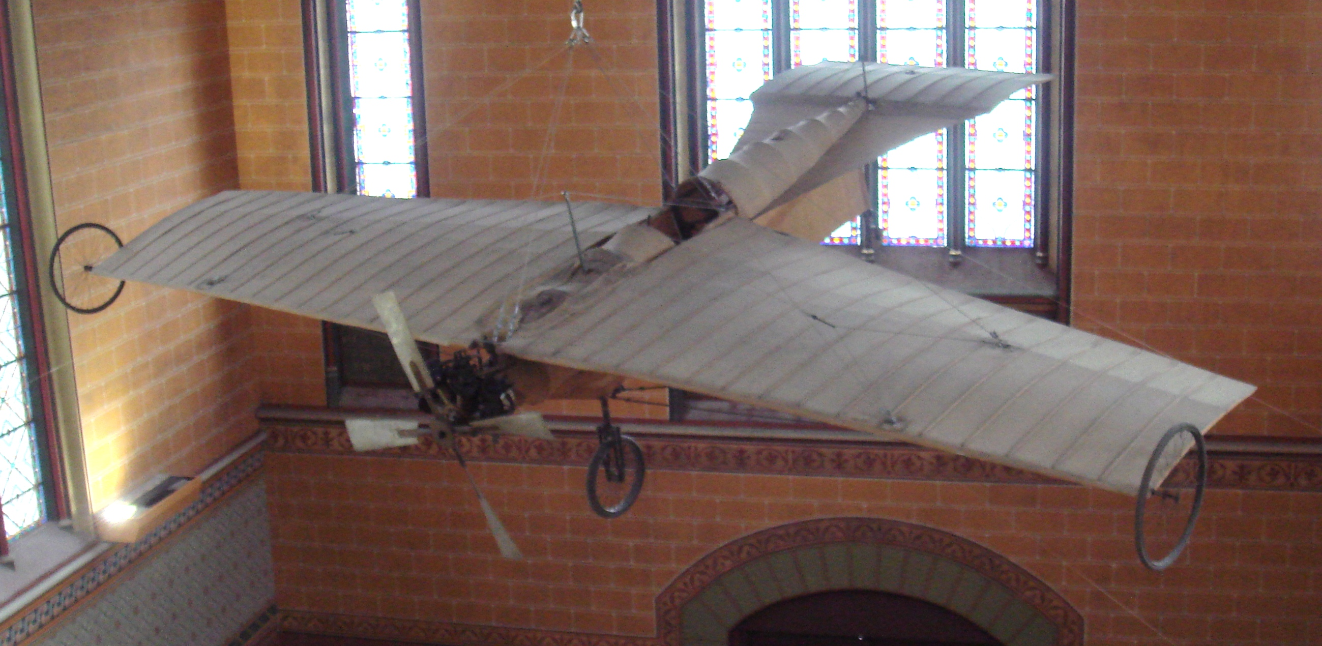 Esnault-Pelterie airplane 1906, photographed at the Musee des Arts et Metiers